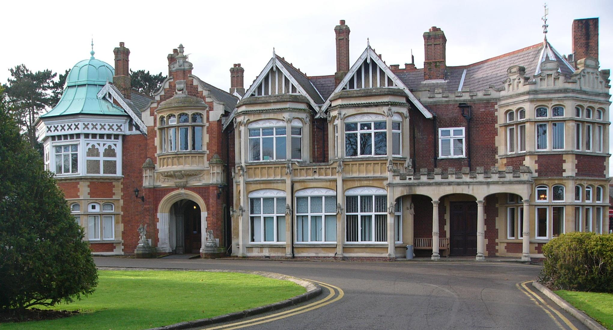 Bletchley Park mansion. Bletchley Park was the place where Enigma messages were cracked during the World War 2. By Matt Crypto.